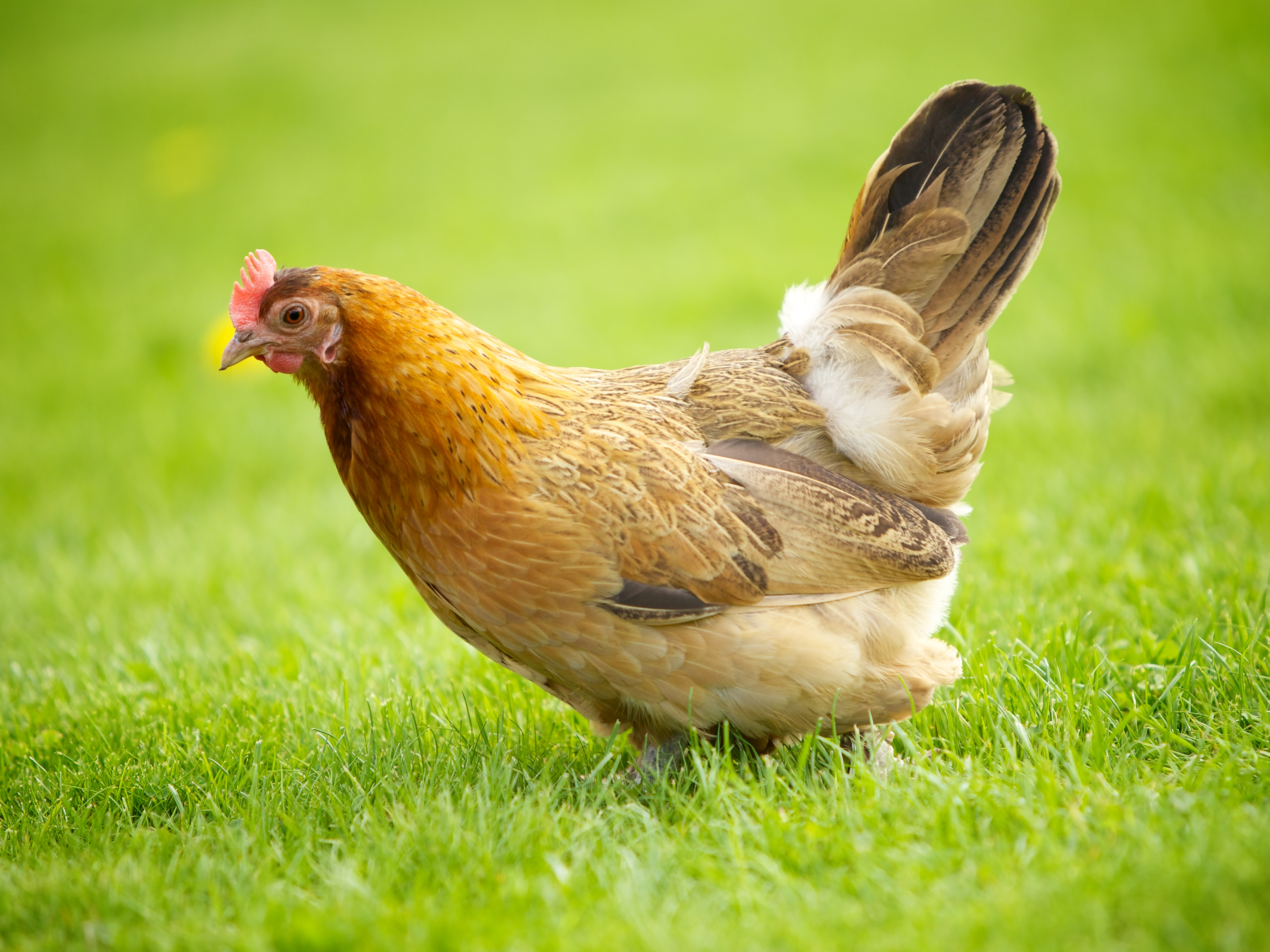 A Norwegian Jaerhone hen in Norway.